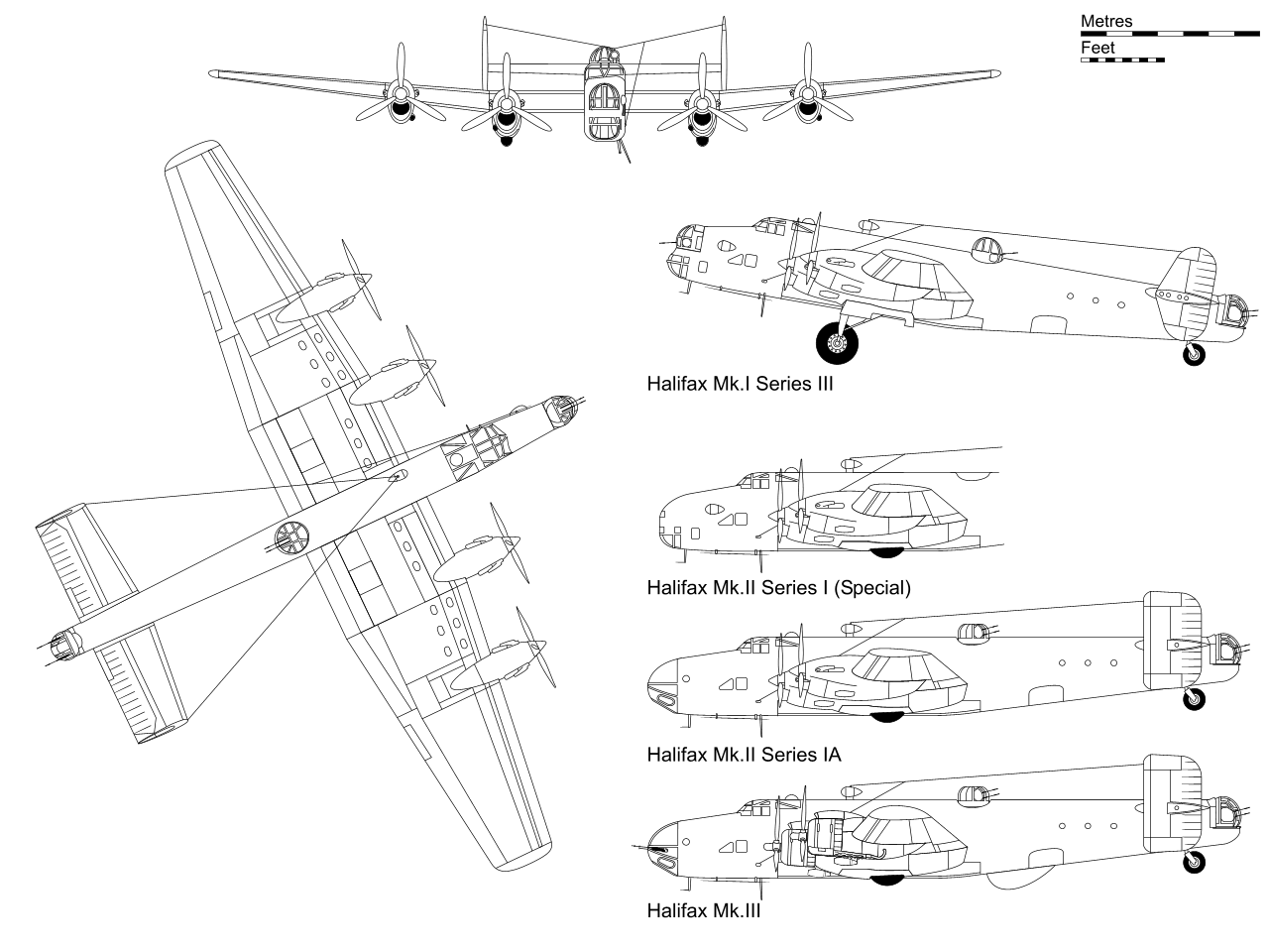 Orthographic projection of Handley Page Halifax Mark II, with profile details of other major variants